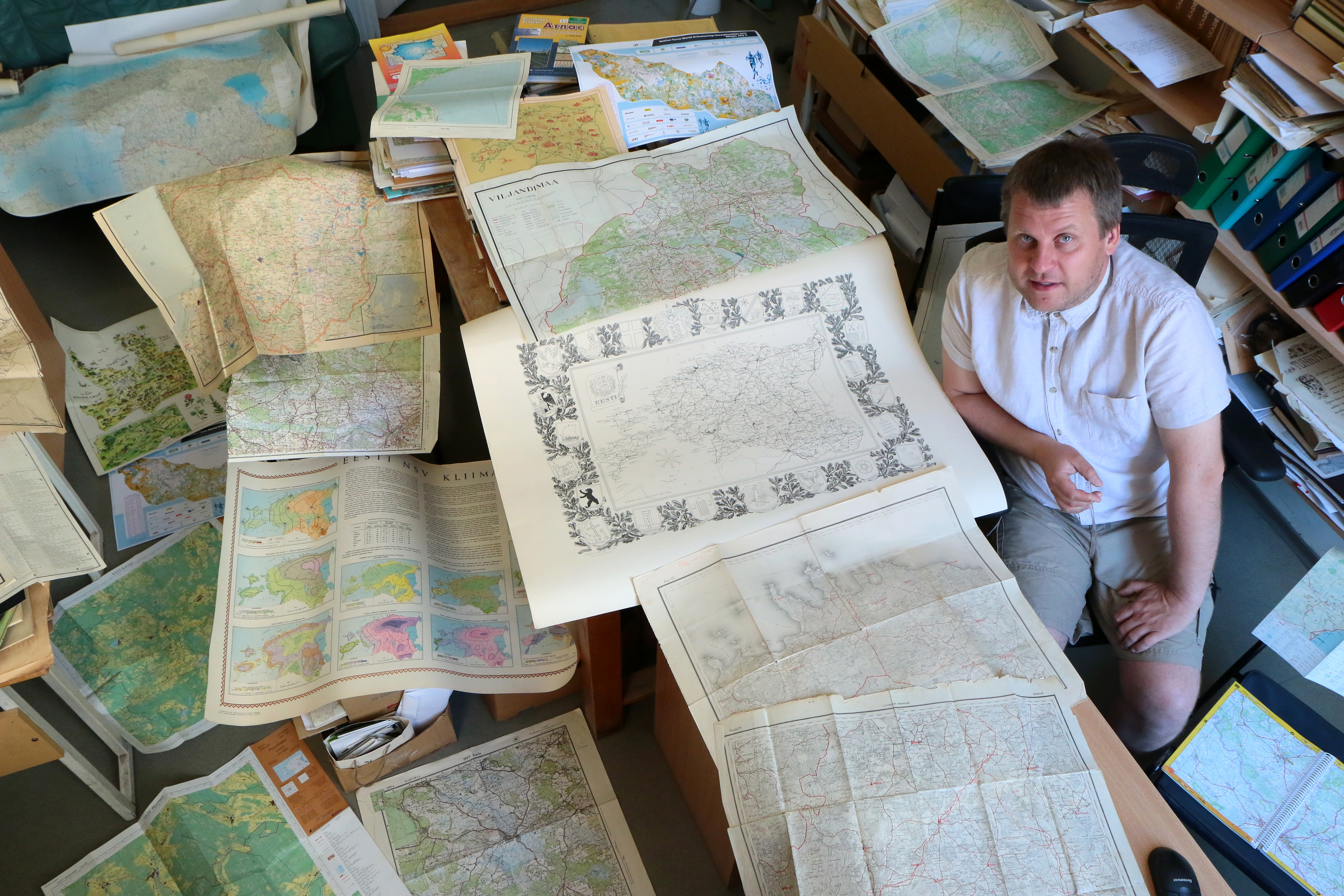 Associate Professor in Estonian Geography Taavi Pae in his office.